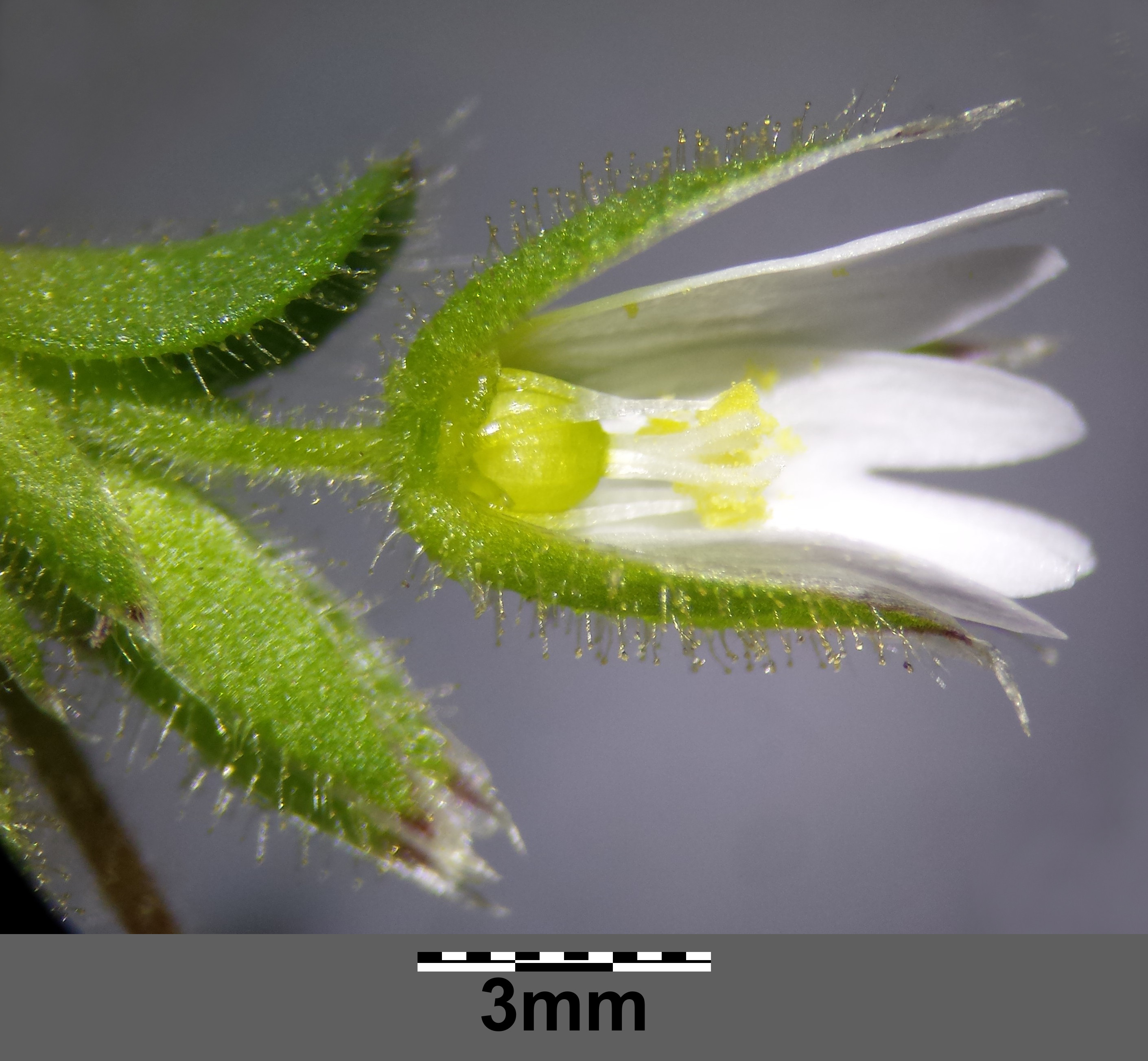 Flower opened Taxonym: Cerastium pumilum s. str. ss Letz D. R., Dančák M., Danihelka J. & Šarhanová P., 2012: Taxonomy and distribution of Cerastium pumilum and C. glutinosum in Central Europe. – Preslia 84: 33–69, cf. errata in Neilreichia 7, S. 238 Location: Michelberg, district Korneuburg, Lower Austria - ca. 409 m a.s.l. Habitat: semi dry grassland